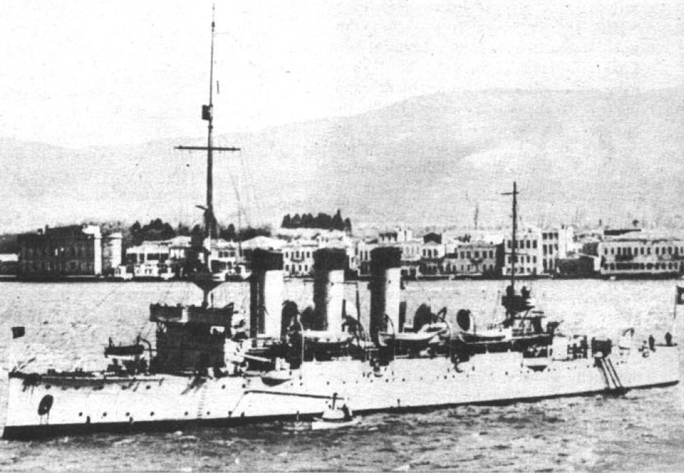 The Turkish cruiser Mecidiye. It was among the large surface combatants of the Turkish Navy between 1927 and 1940, when it became a cadet training ship, being used for this purpose until being decommissioned on 1 March 1947.